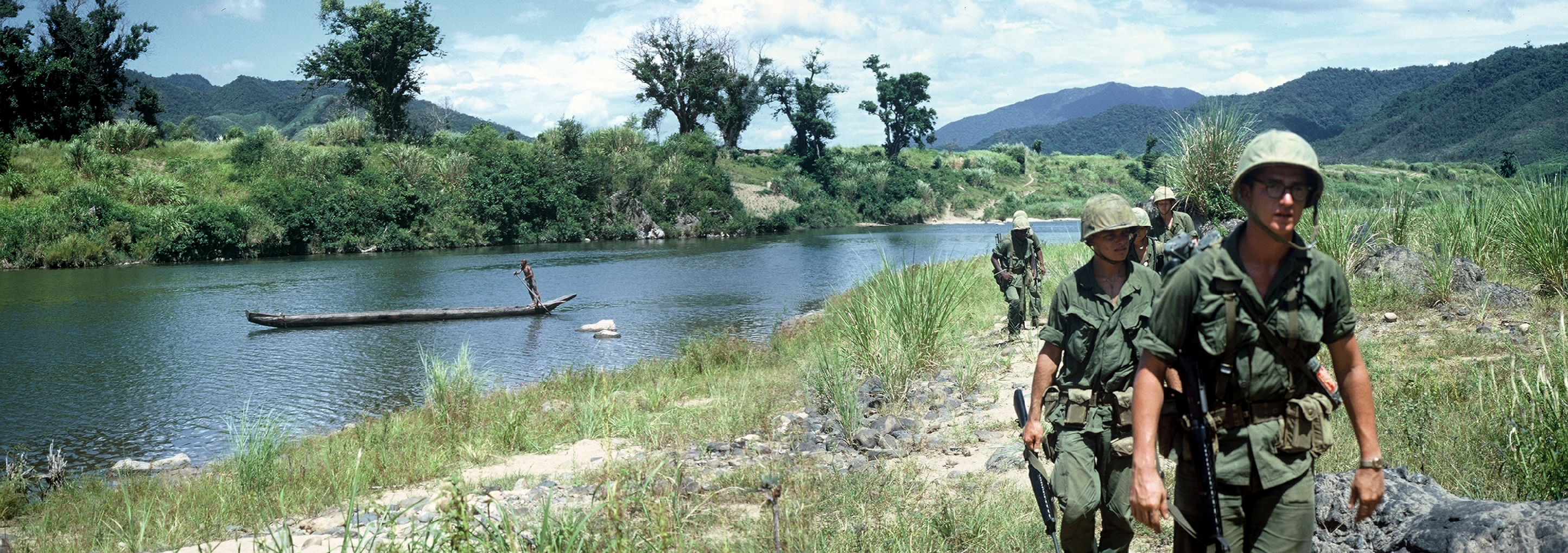 A squad of 3rd Platoon, Lima Company, 3rd Battalion, 3rd Marines patrolling along the Quang Tri River near CA LU Vietnam June 1967